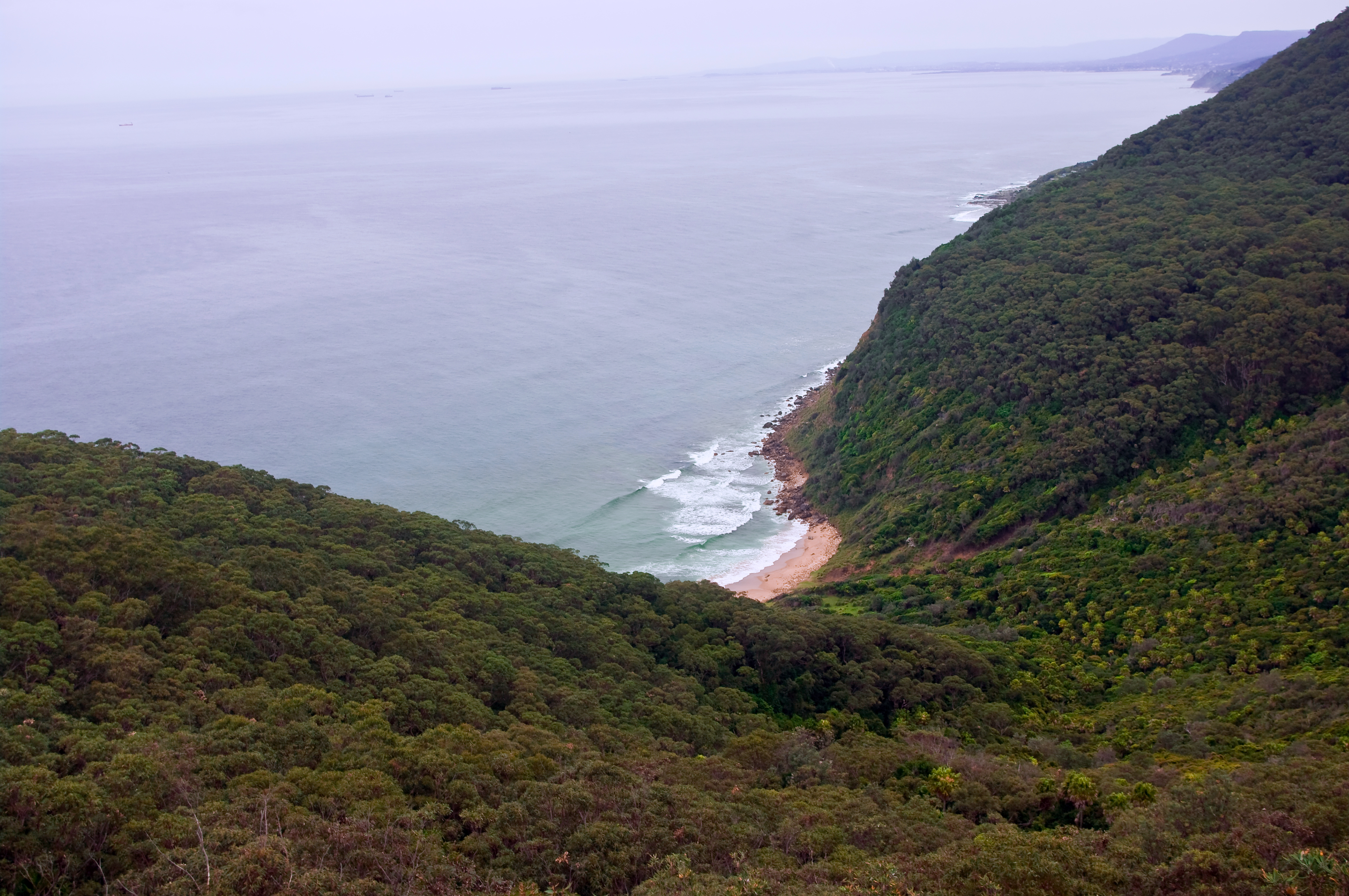 A view of Werrong Beach from the Coast Track, Royal NP.